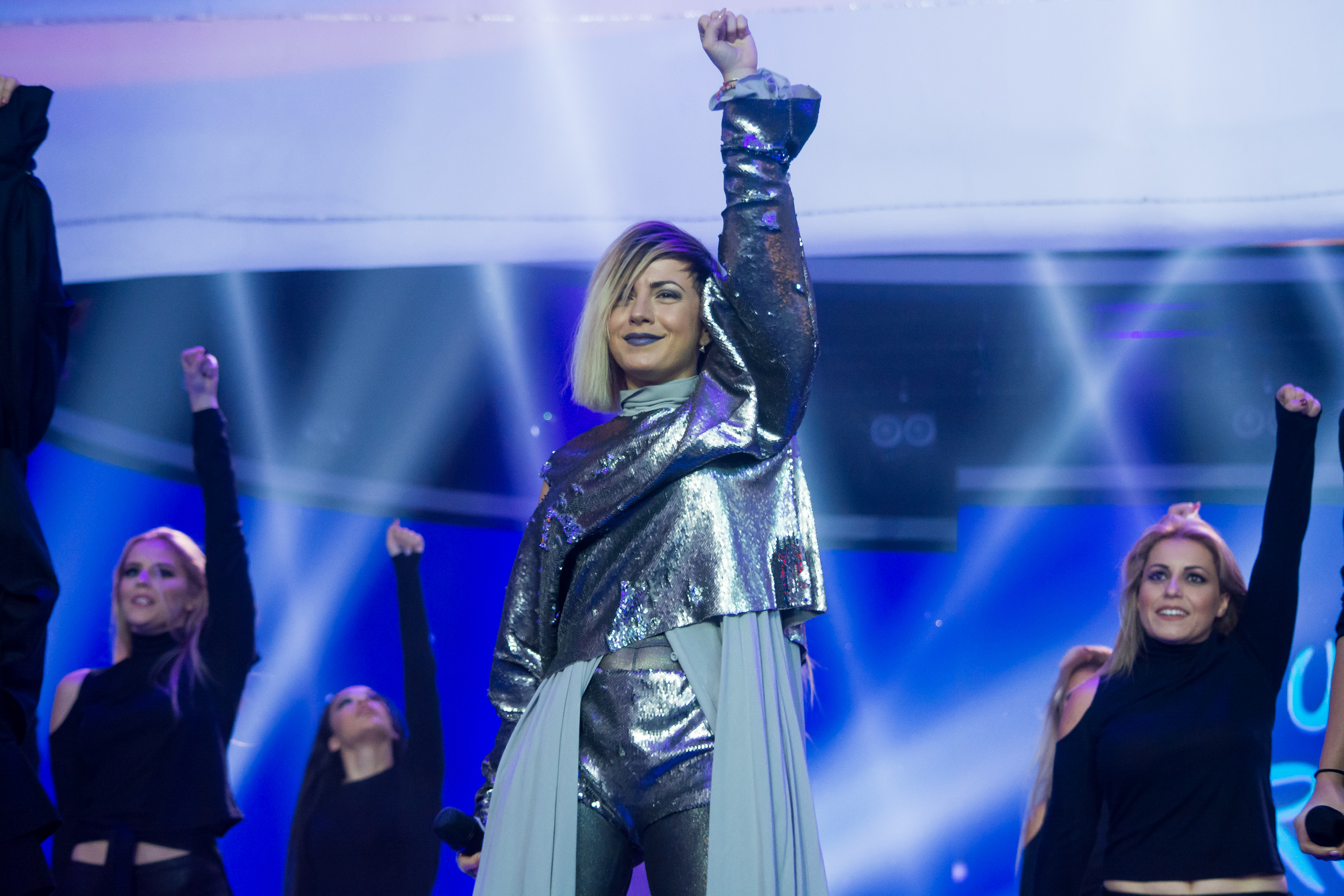 JESC 2016 interval act: Poli Genova